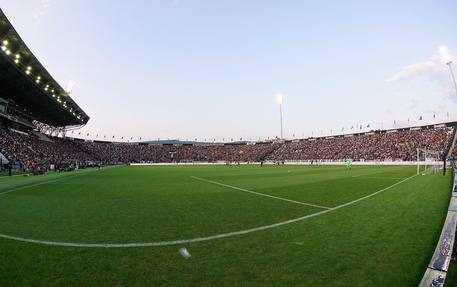 PAOK VS. Spartak Moscow 8 august 2018